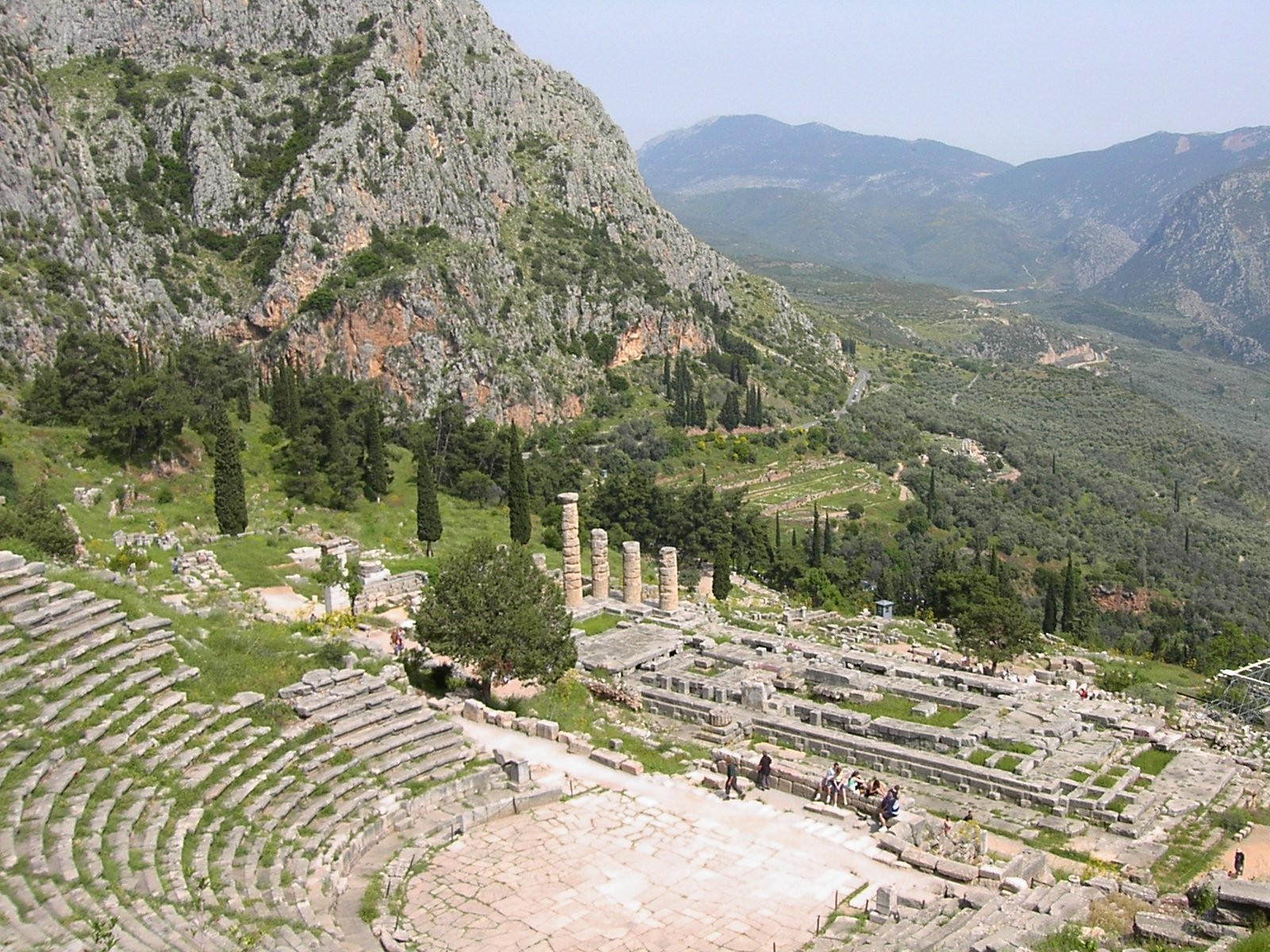 Ruins of the theatre and of the temple of Apollo at Delphi.